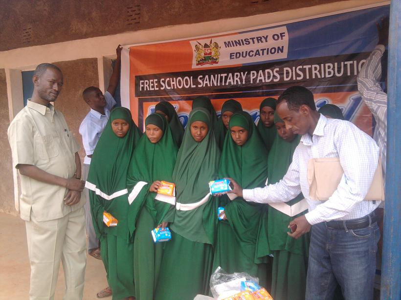 School